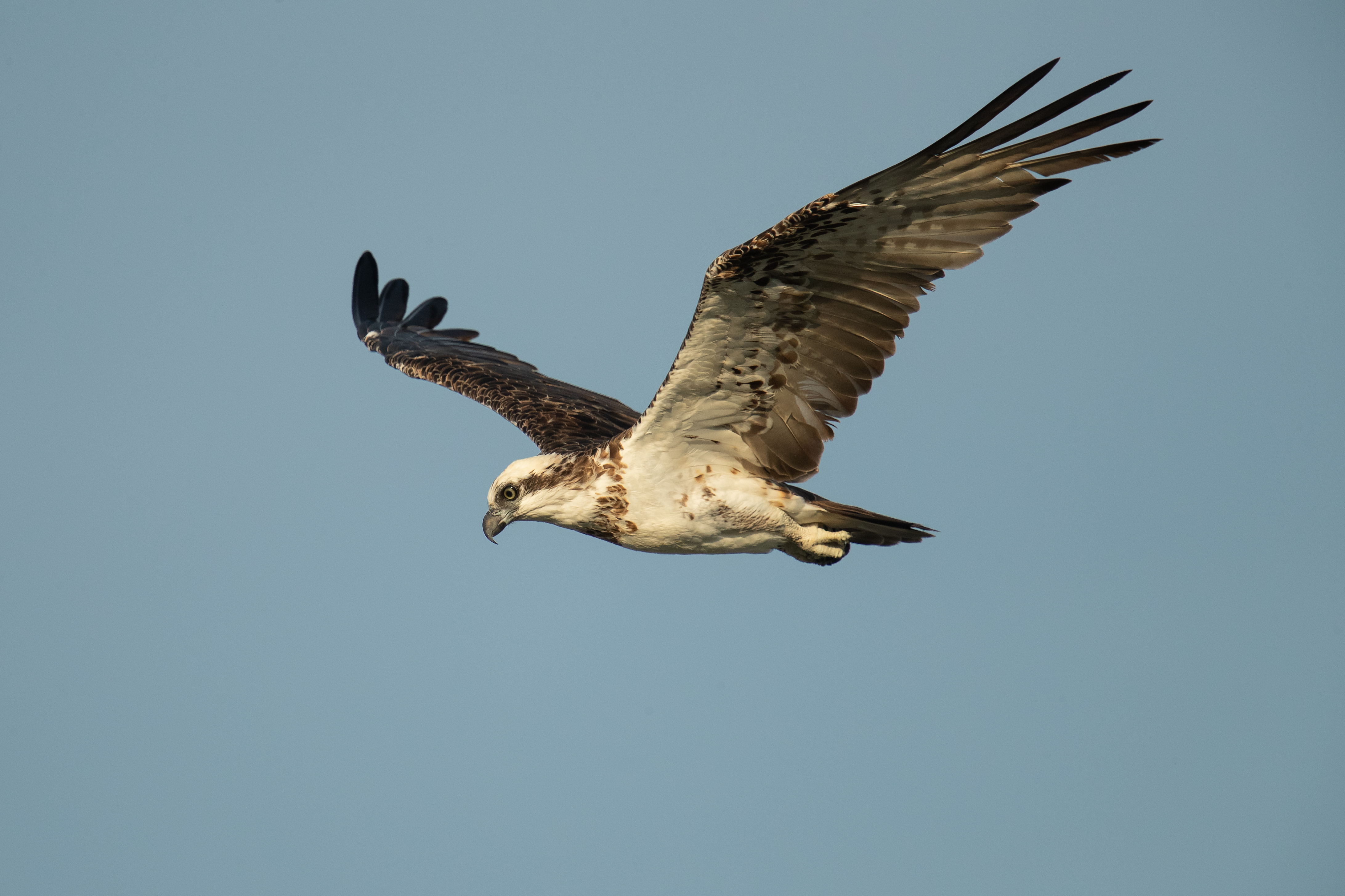 Osprey, Lee Point Reserve, Darwin, Northern Territory Australia